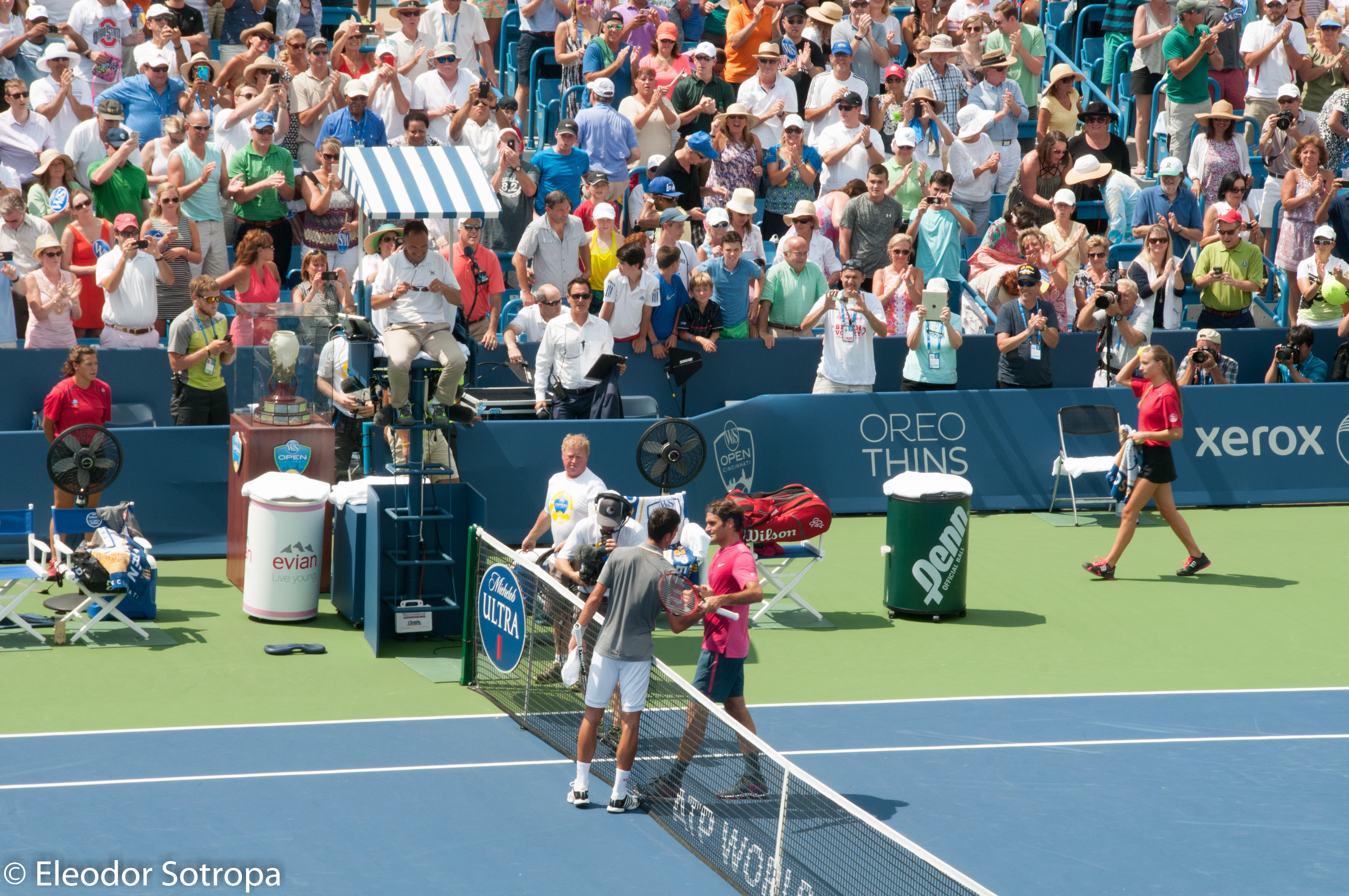 Cincinnati-Tennis-2015-ATP-WTA-114